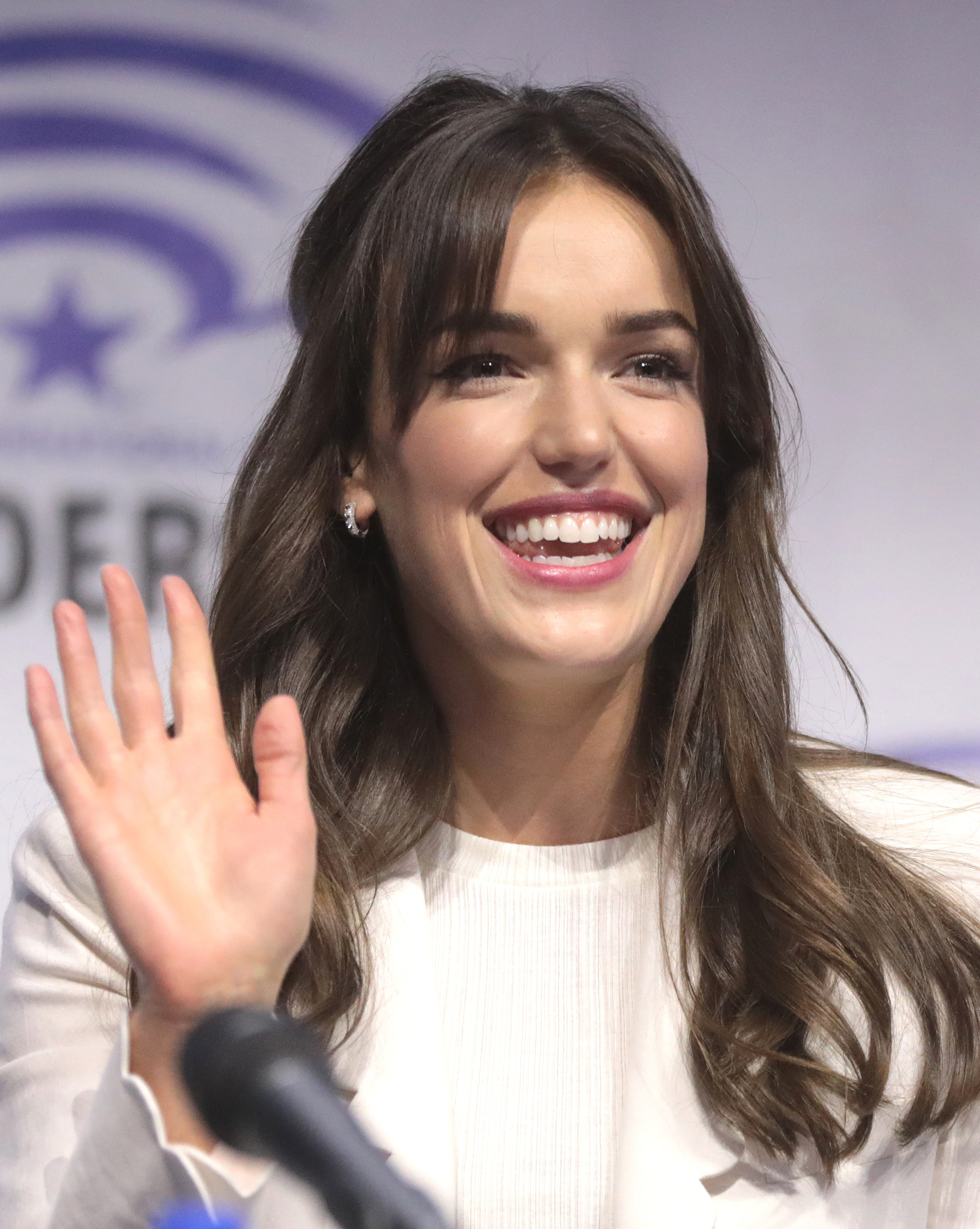 Elizabeth Henstridge at the 2019 WonderCon in Anaheim, California.